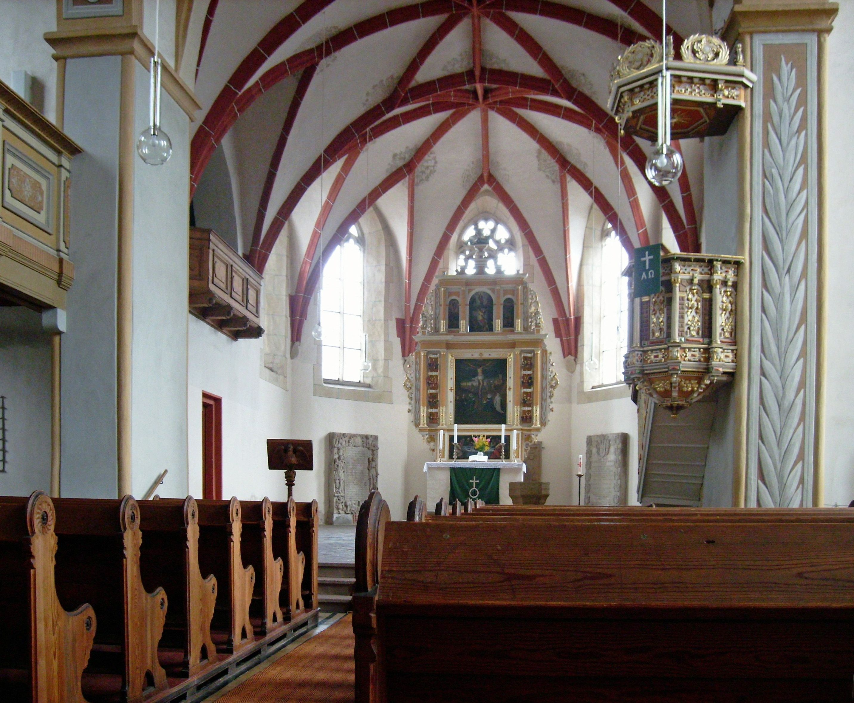 Choir of St. George Church, Rötha (Leipzig district, Saxony)